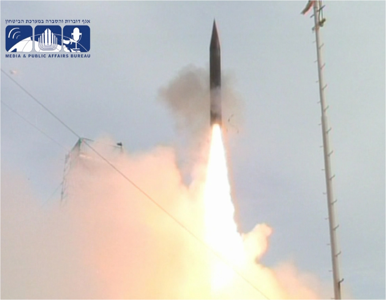 Feb. 25, 2013 - The Israel Missile Defense Organization (IMDO) and the U.S. Missile Defense Agency (MDA) completed a successful flight test of the Arrow-3 interceptor missile. The Arrow-3 interceptor successfully launched and flew an exo-atmospheric trajectory through space, according to the test plan.